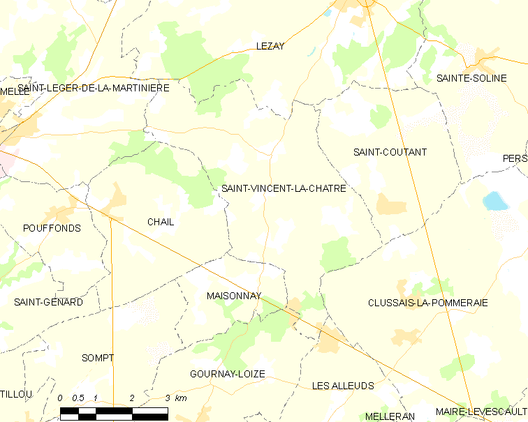 Map of French municipality Saint-Vincent-la-Châtre